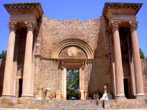 The Ancient Roman theater in Guelma — Algeria. Credits Photographer: GASMI. M. "Source: Own photograph by uploader"